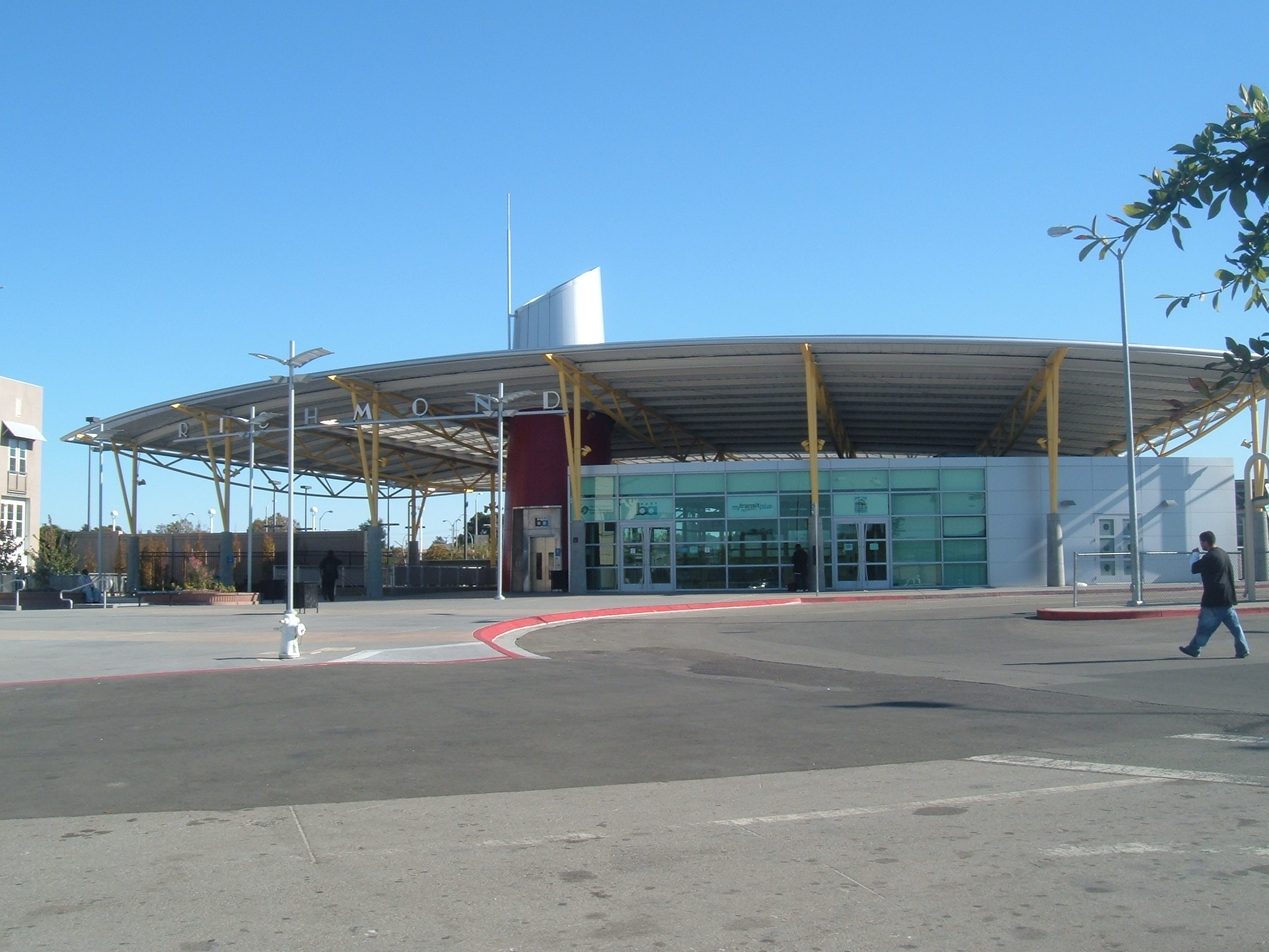 Transit Center in Richmond, California. Serves Ac Transit, BART, and Amtrak